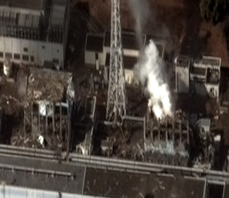 Reactor units 3 and 4 at the Fukushima I Nuclear Power Plant after the 2011 Tōhoku earthquake and tsunami